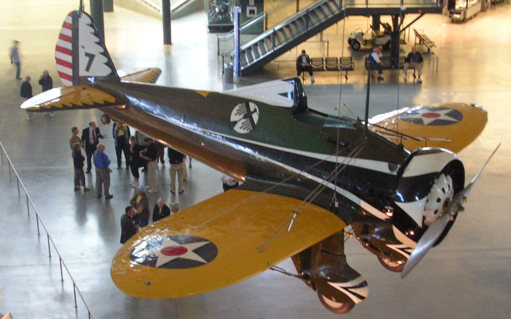 P-26 in markings of the 34th Pursuit Squadron. Arjen Mulder